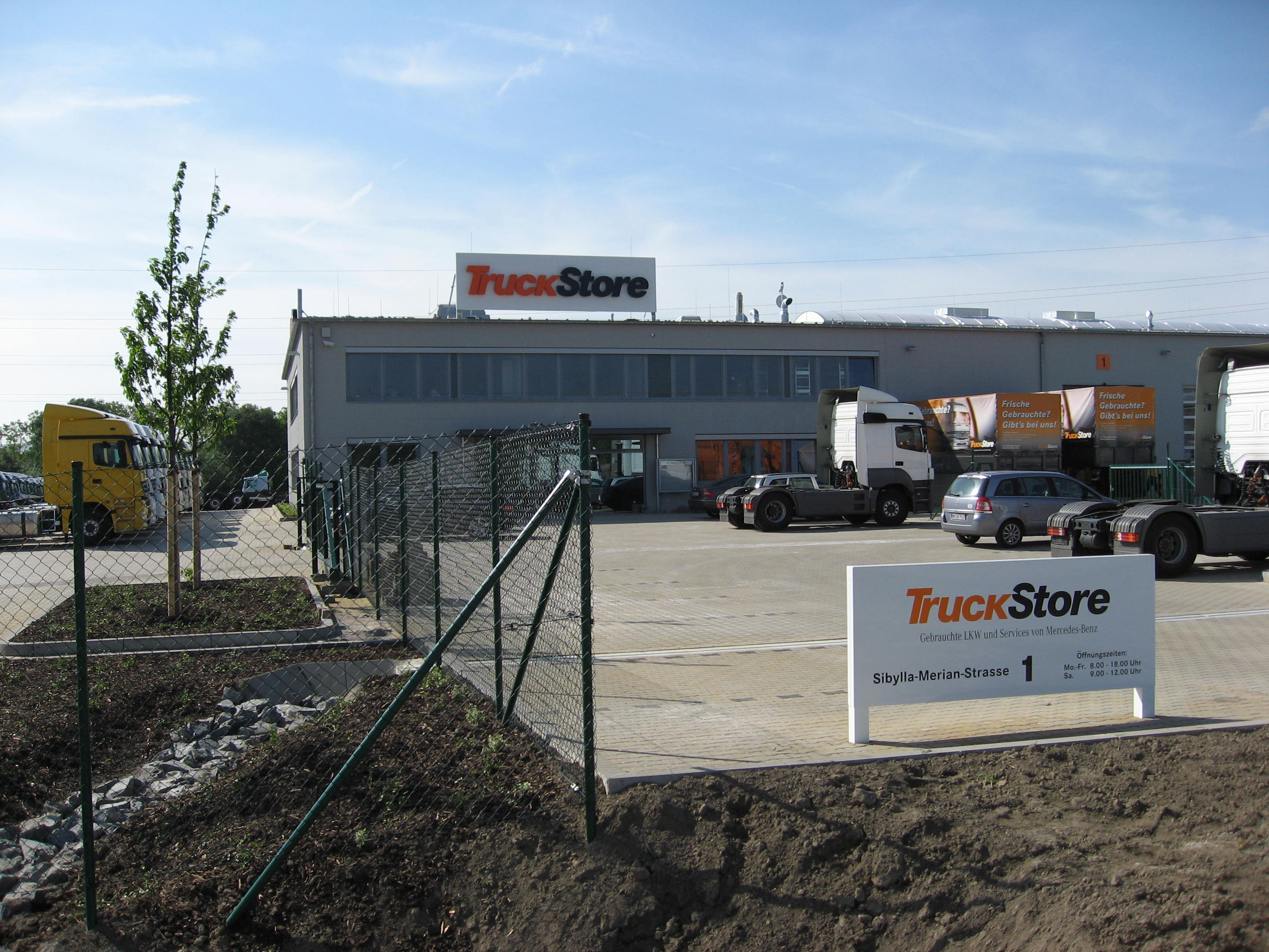 TruckStore Ruhrgebiet